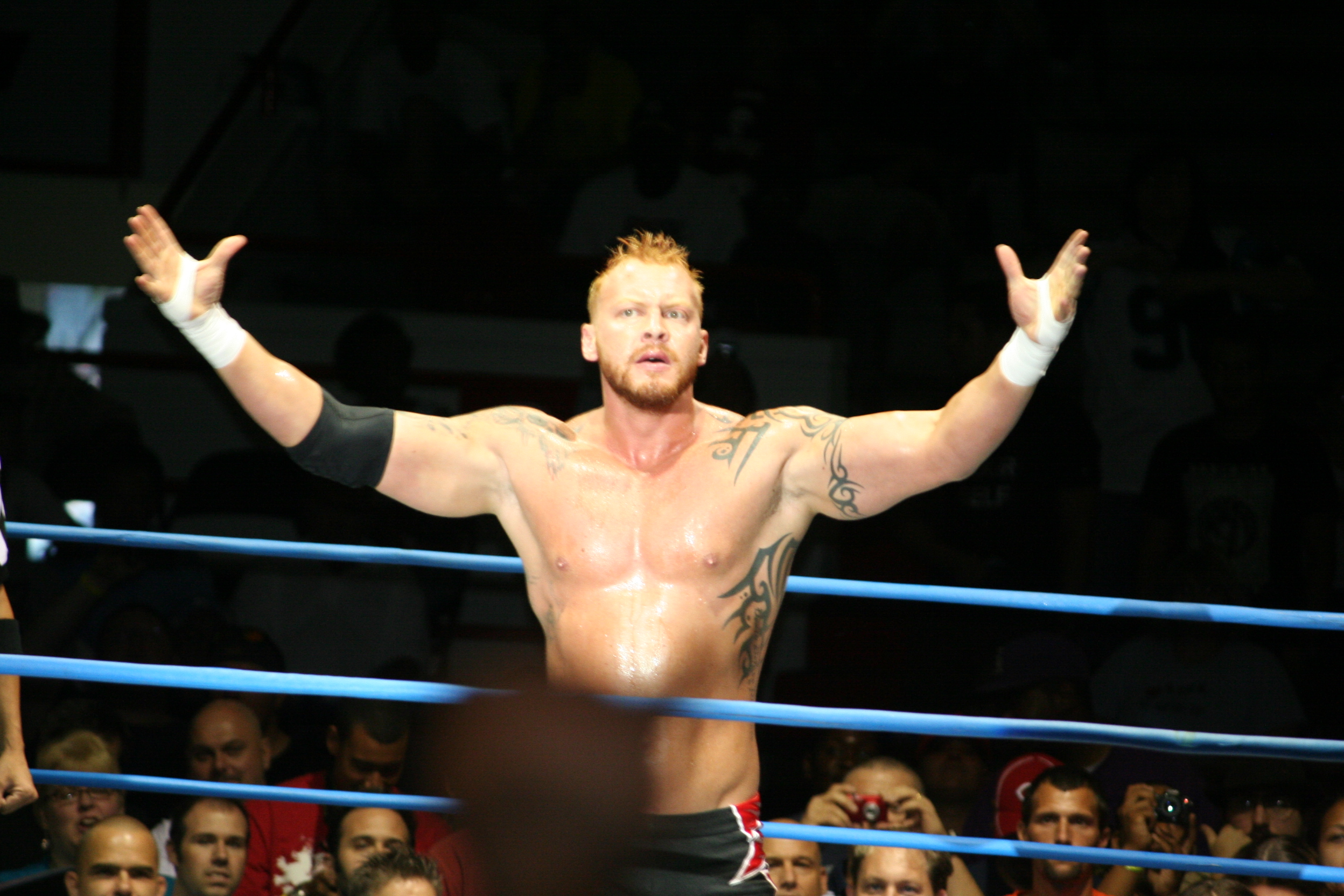 Professional wrestler Crimson at a TNA live event.